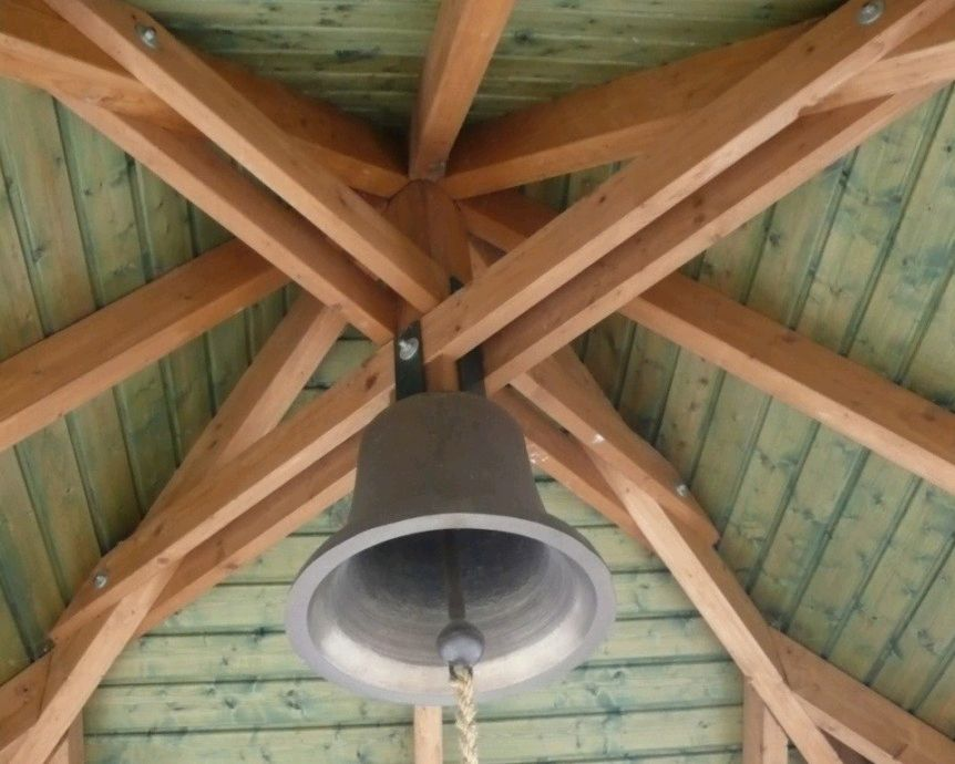 Apolda Gl-nauendorf